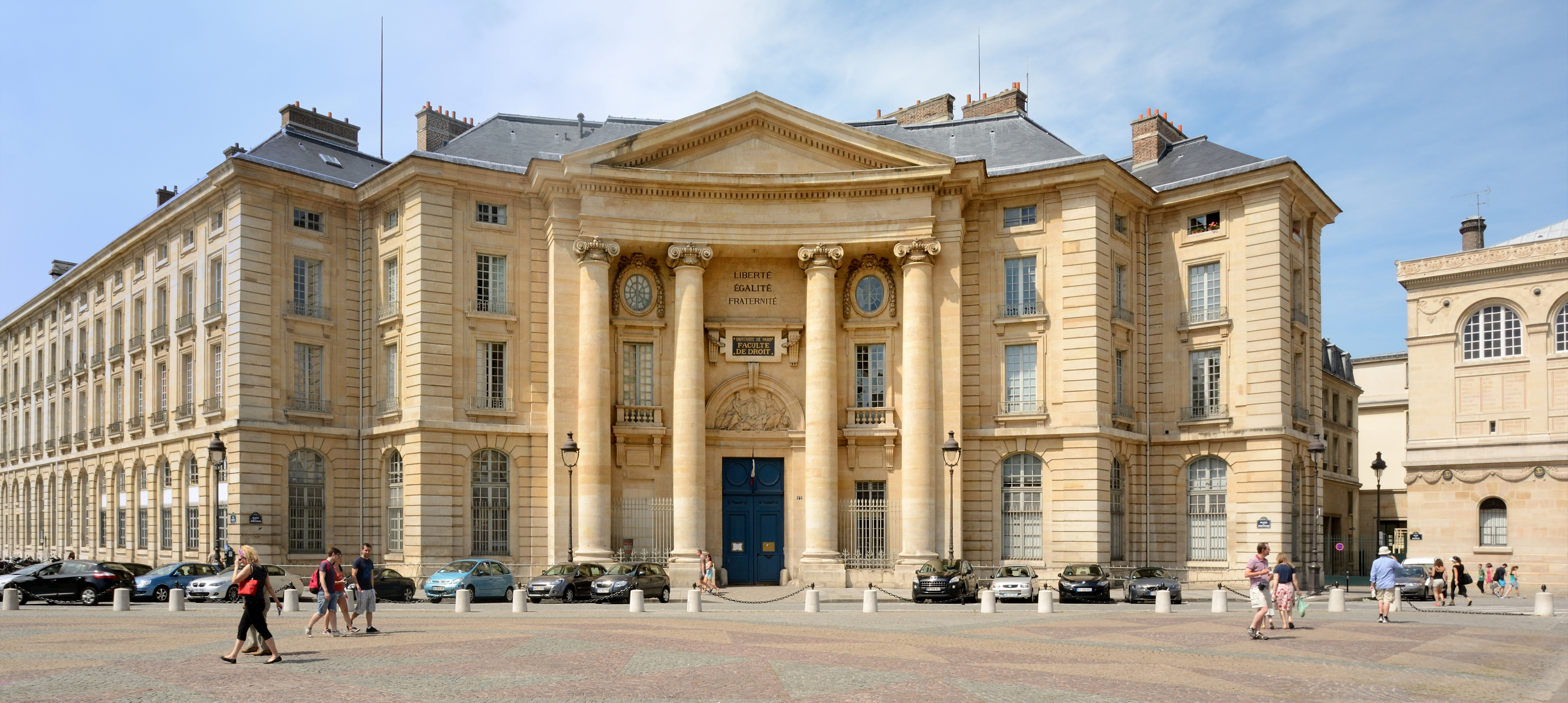 Main buildings of the universities Panthéon-Sorbonne and Panthéon-Assas, former Faculty of Law and Economics of the University of Paris (Sorbonne). Place du Panthéon, Paris.